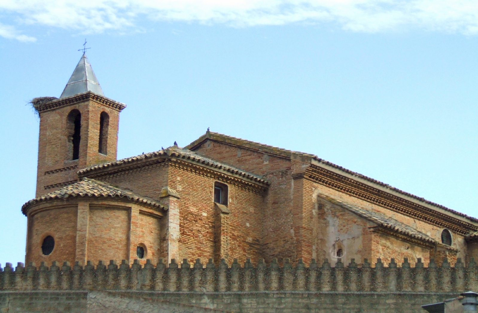 Iglesia de Nuestra Señora del Castillo (Alagón)